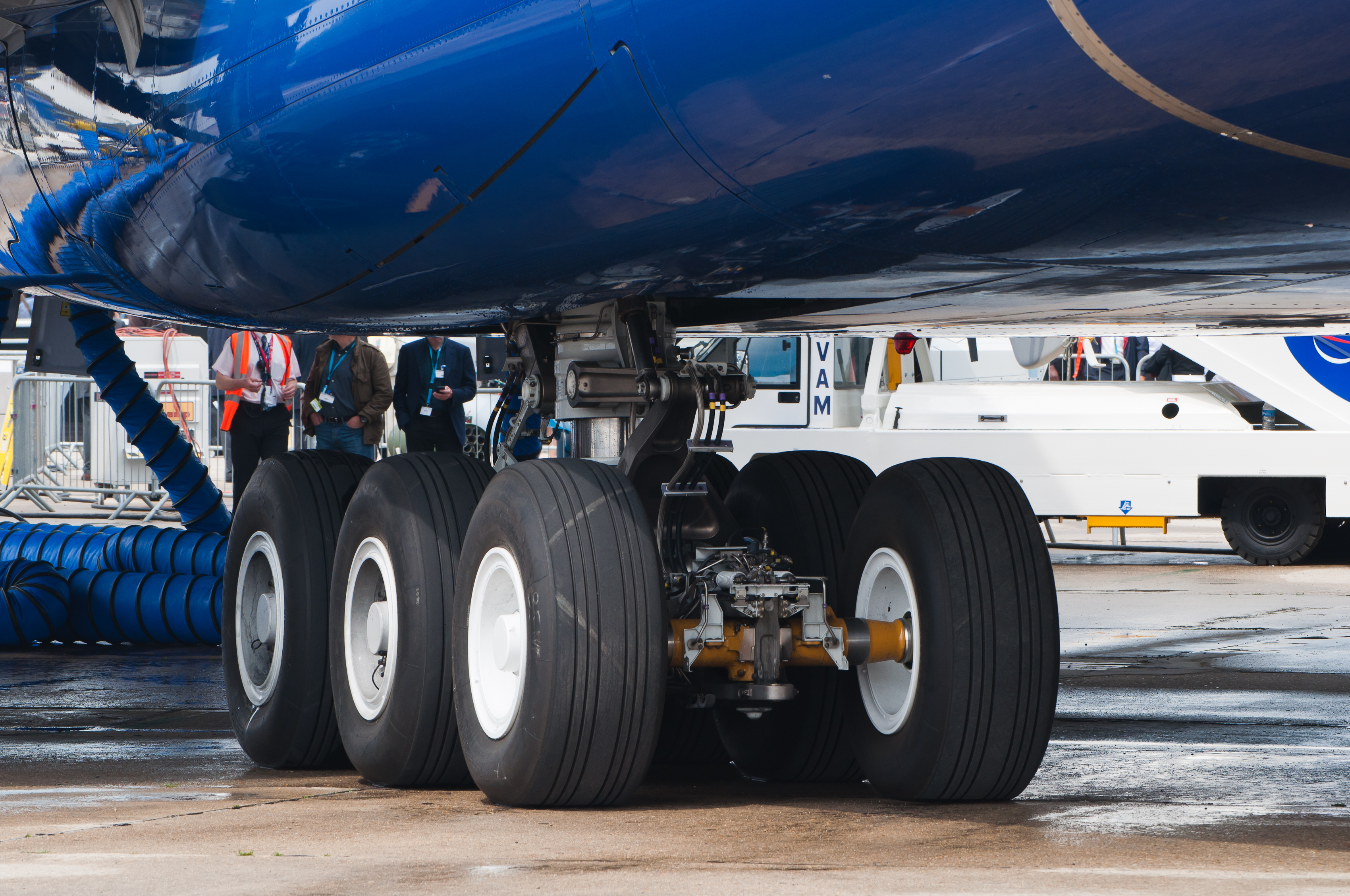 Left central main landing gear, British Airways Airbus A380-841 (reg. F-WWSK, c/n 095, normally G-XLEA) at Paris Air Show 2013.